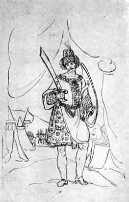 Rostom of KartliRostom of Kartli, a prominent Safavid officer and a Georgian prince who would become a successful ruler of Kartli from 1633 to 1658